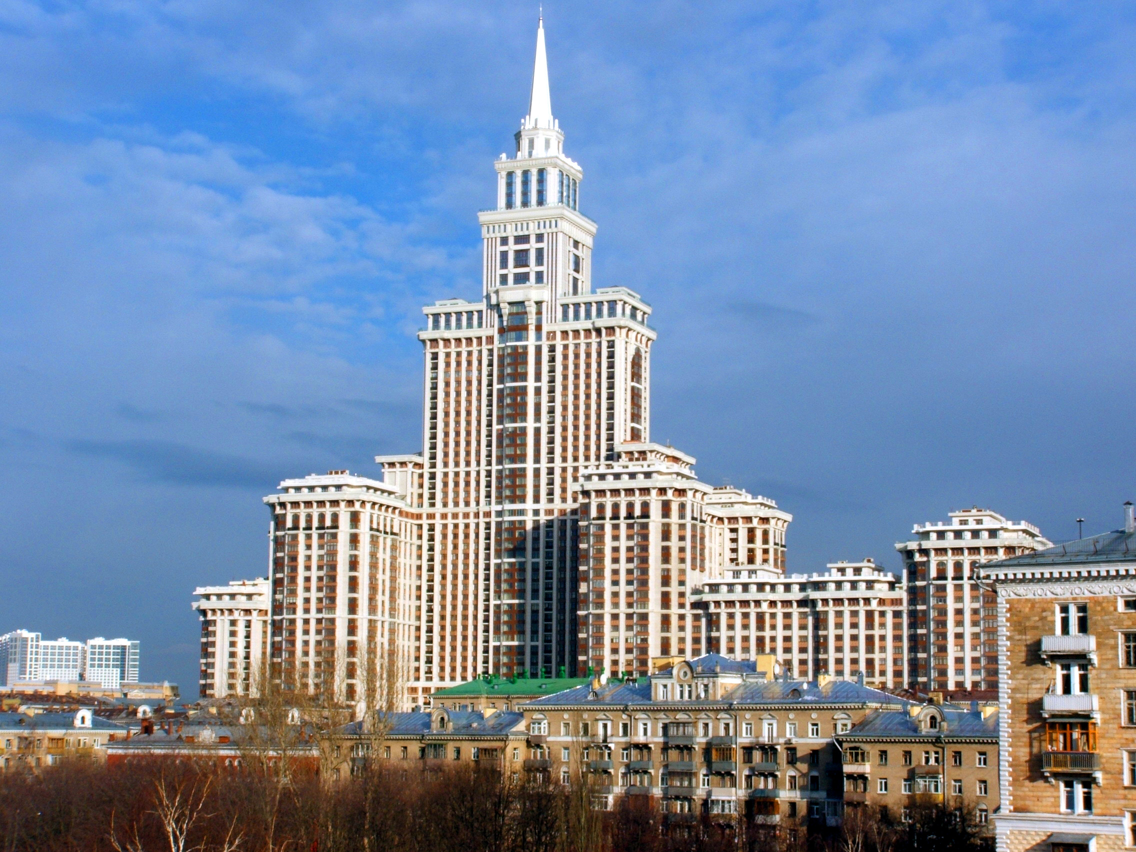 Khoroshyovsky District, Moscow, Russia